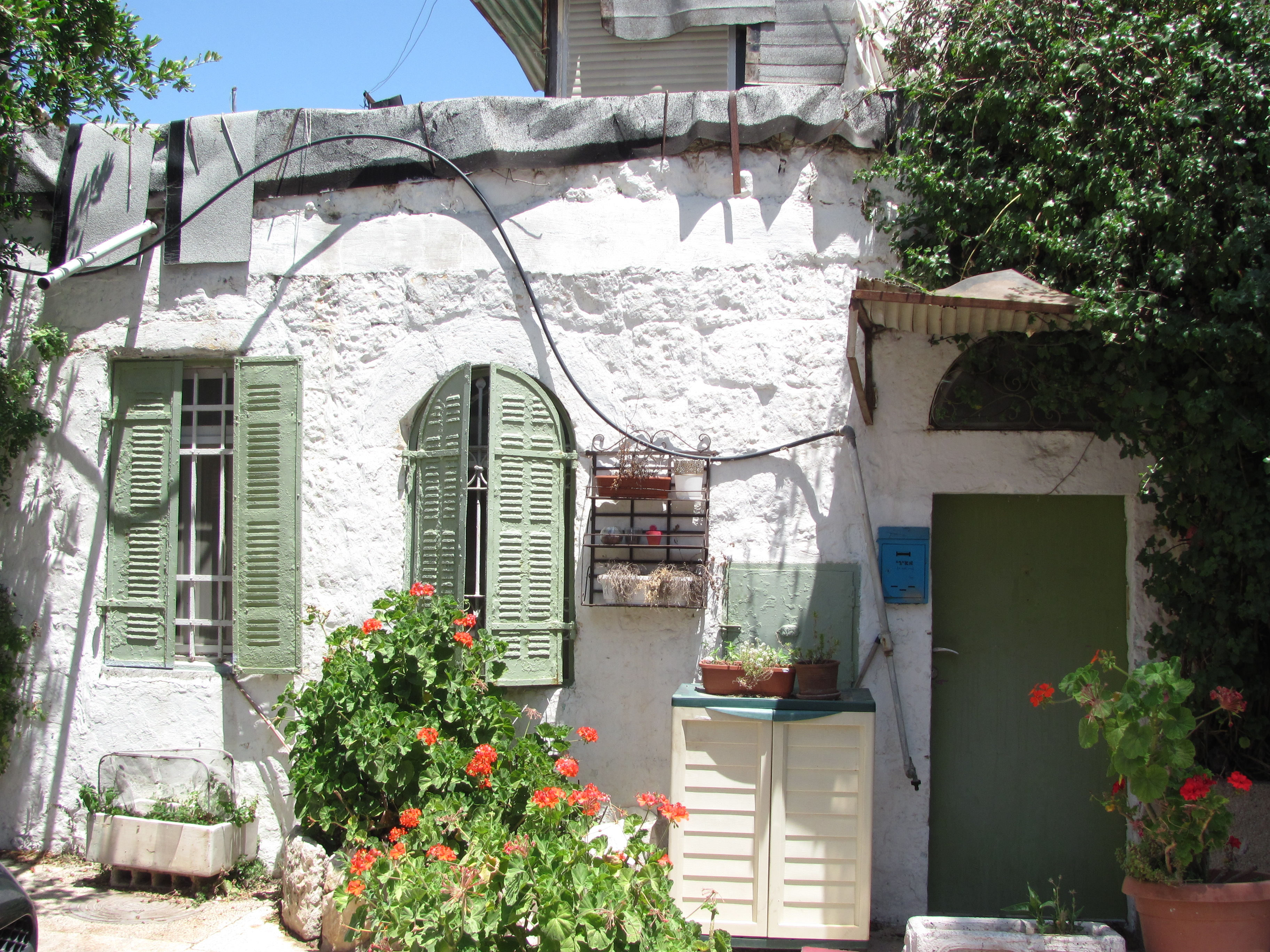 House on 1 Zikhron Tuvya Street, Jerusalem, Israel.